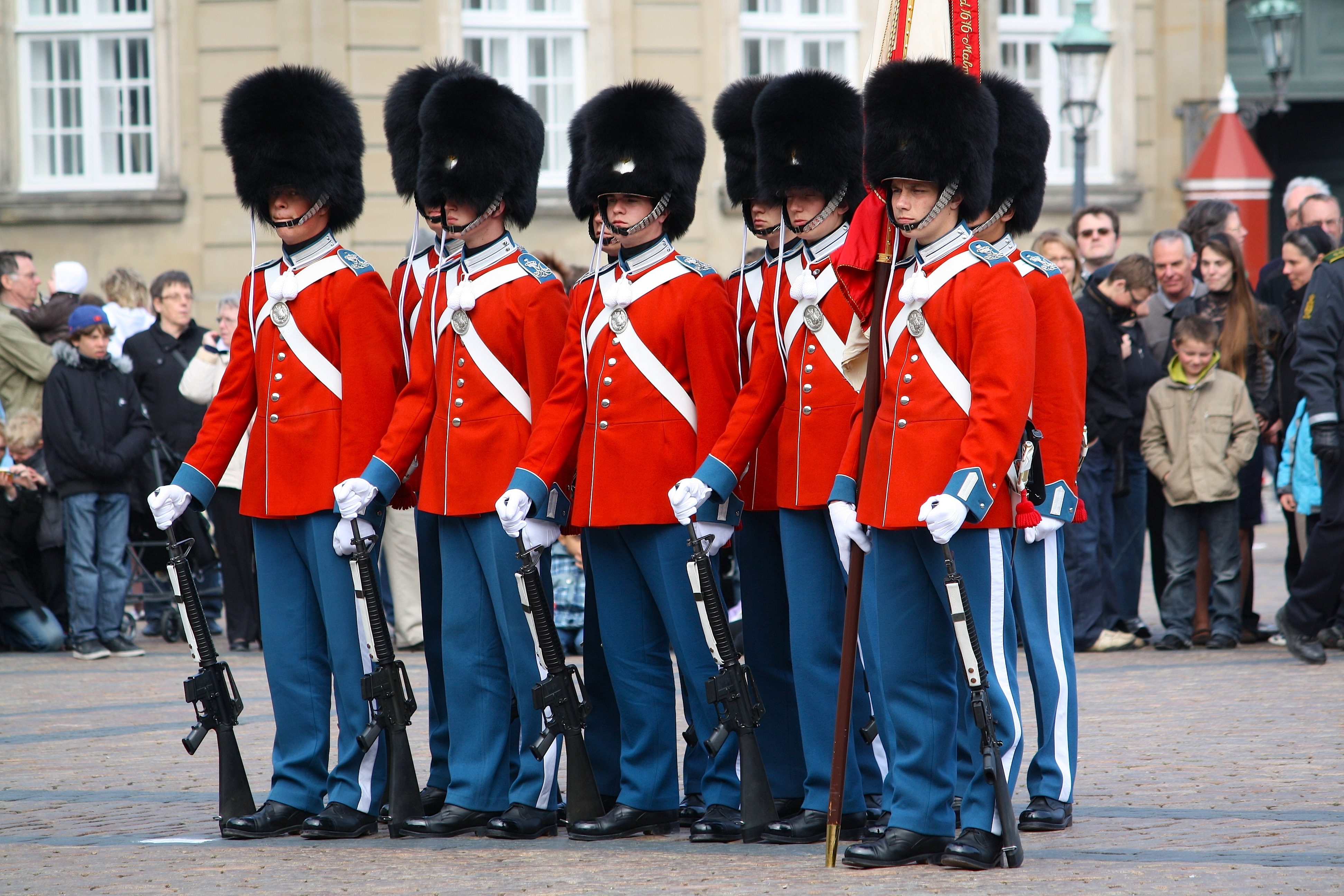 Danish Royal Guards during the ceremony of the changing of the guards on Queen Margaret II's Birthday, 16th April 2009, Copenhagen, Amalienborg Palace